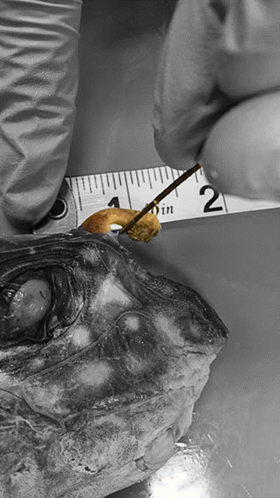 The frontal tenaculum of the Spotted ratfish chimaera is shown in color.